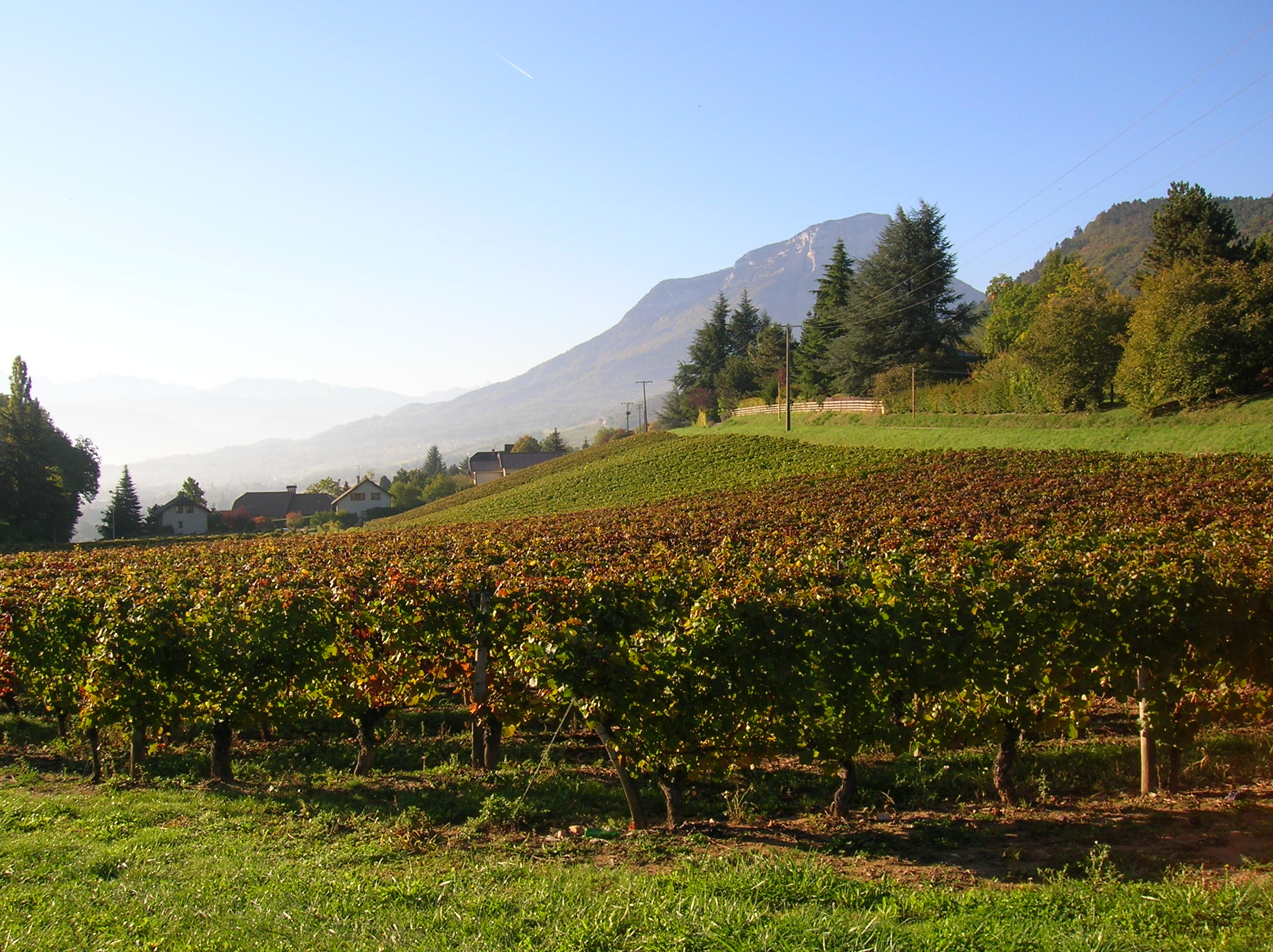 Saint-Baldoph (Savoie, Rhône-Alpes, France) : Vineyards.